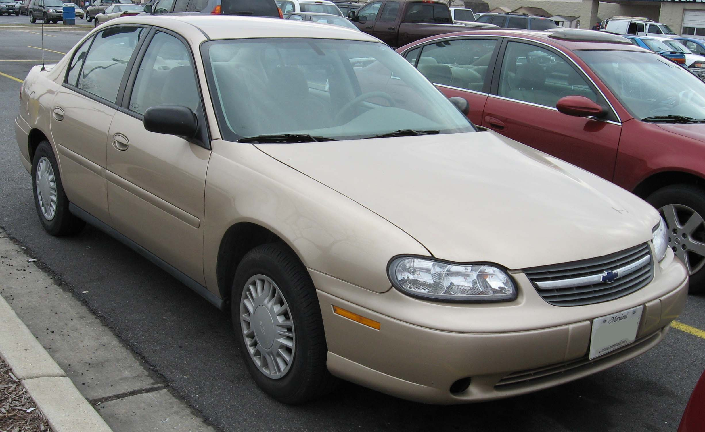 2004-2005 Chevrolet Classic photographed in USA.